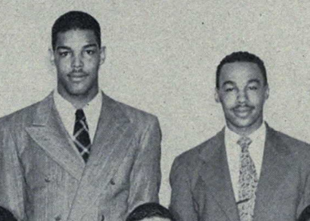 Photograph of Len Ford and Bob Mann cropped from portrait of members of Omega Psi Phi